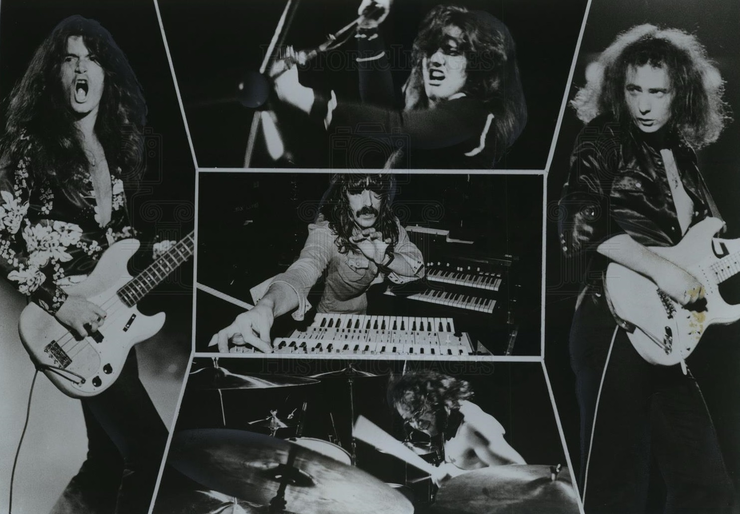 British rock band Deep Purple.